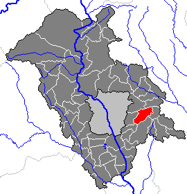 This map shows the area of the Gemeinde (municipality) Laßnitzhöhe in the Bezirk (district) Graz-Umgebung, Styria, Austria.